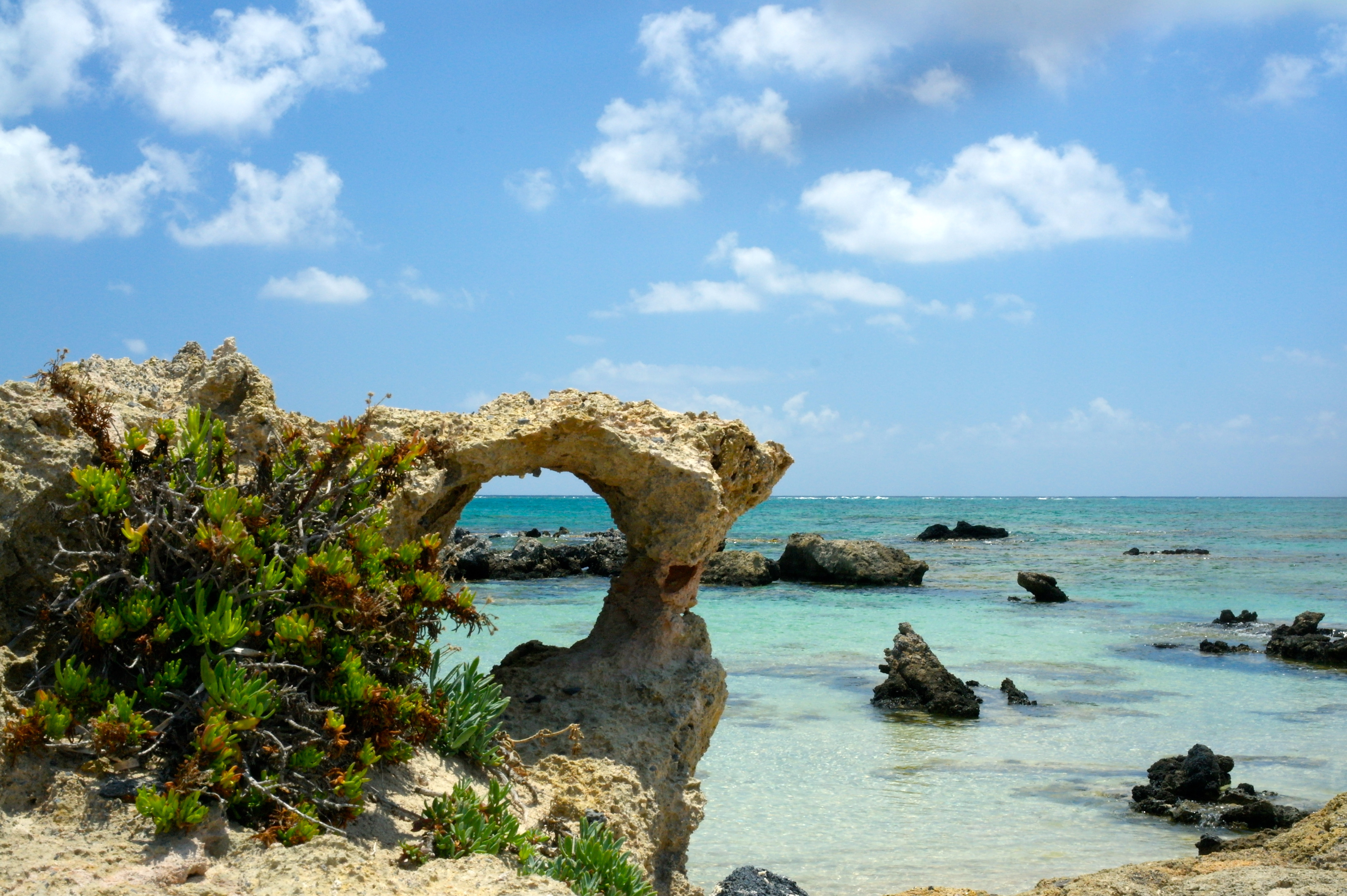 This is a photography of Natura 2000 protected area with ID GR4340006